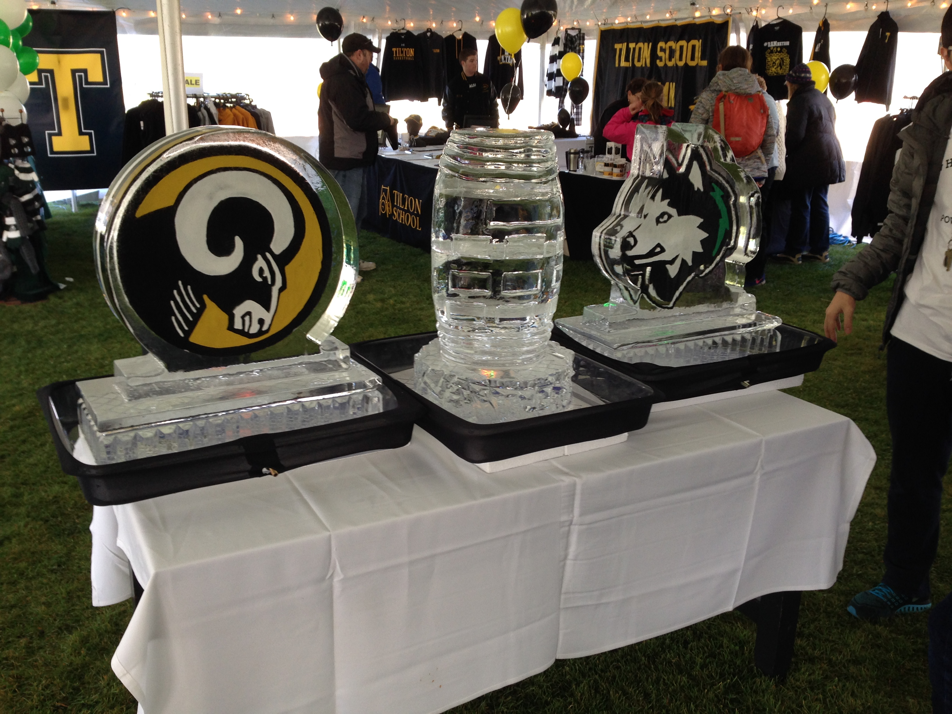 This file represents an ice sculpture display at the annual Powder Keg competition between Tilton School and New Hampton School, one of the oldest prep school rivalries in the United States. Both the Tilton mascot, a ram, and the New Hampton mascot, a husky are represented as well as the powder keg.